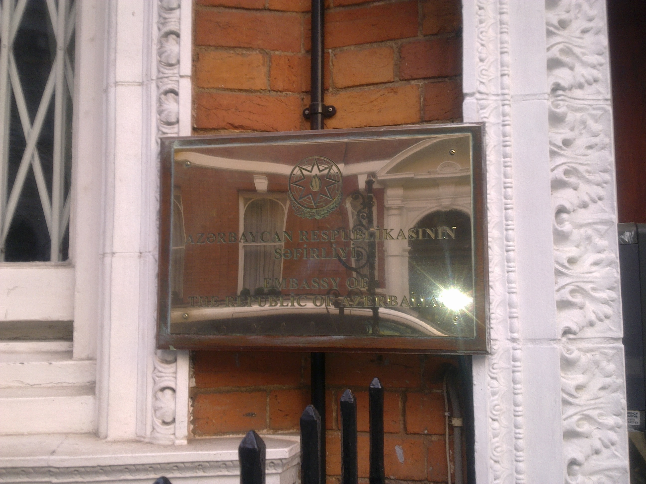 Embassy of Azerbaijan in London 2